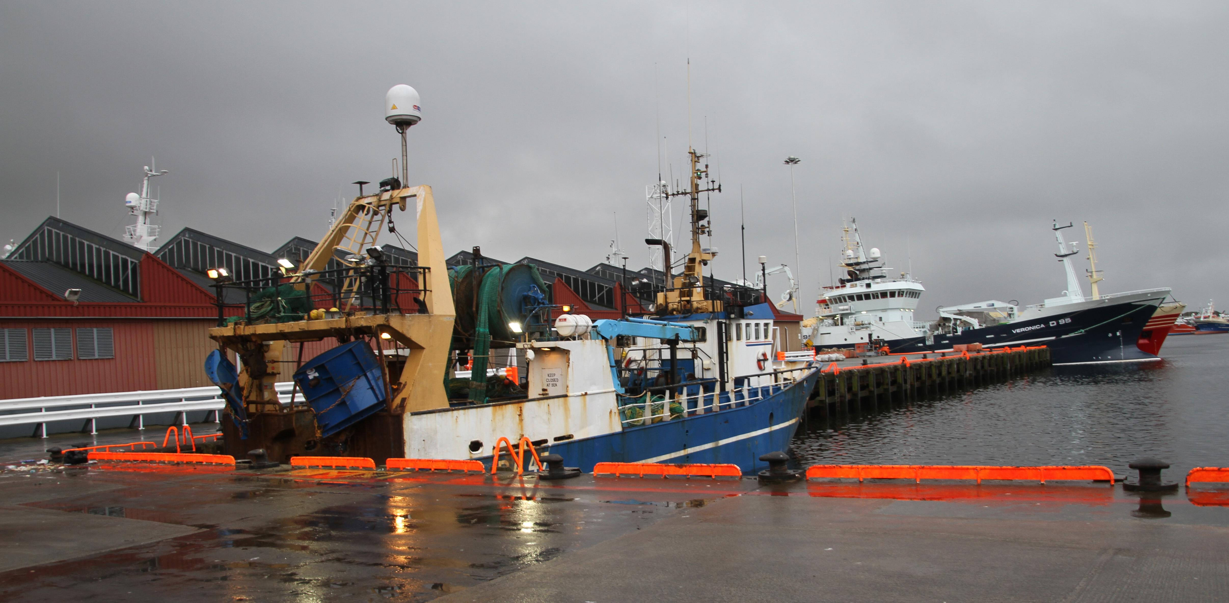 Killybegs Harbour